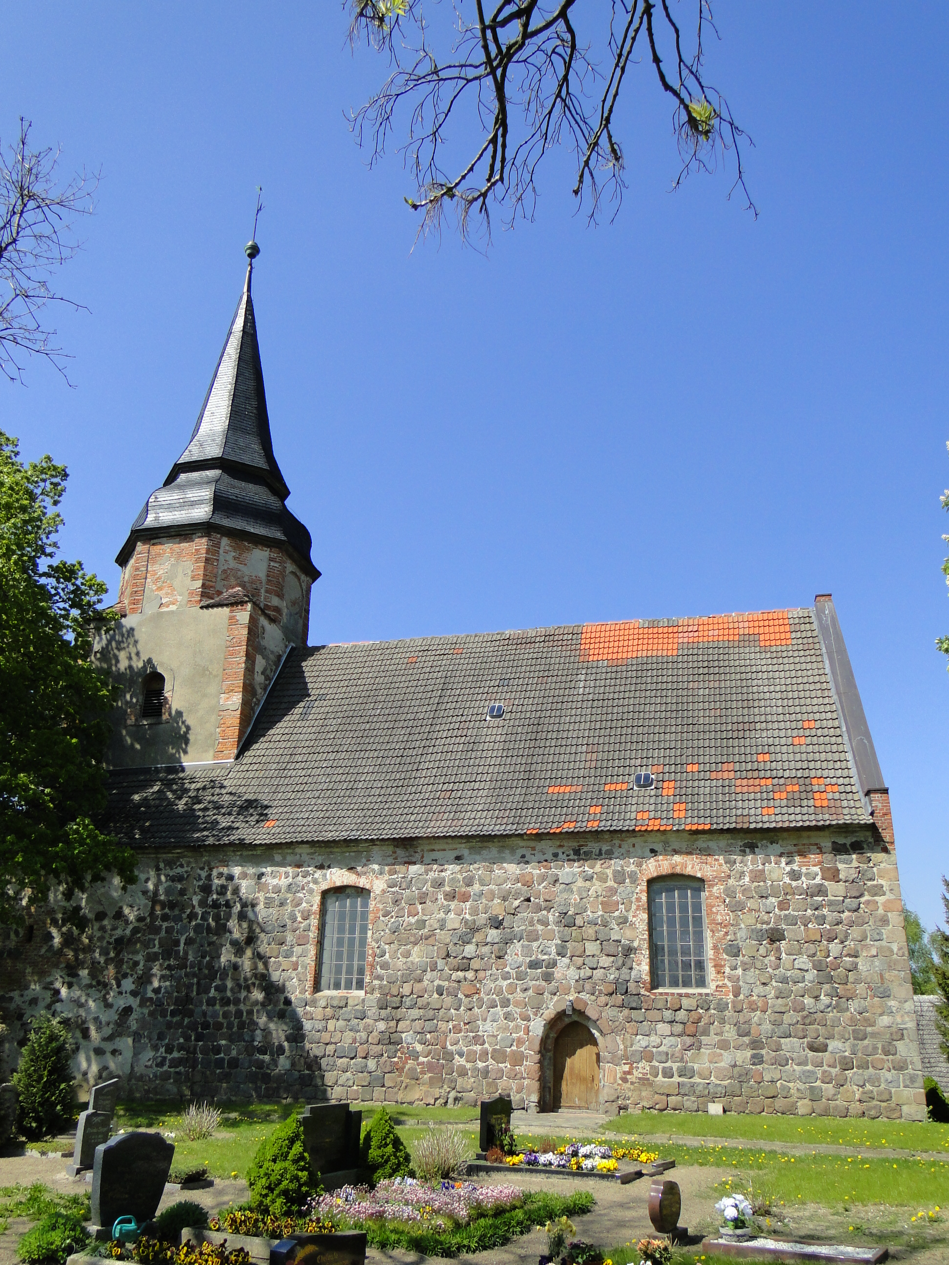 Church in Kreckow, district Mecklenburg-Strelitz, Mecklenburg-Vorpommern, Germany